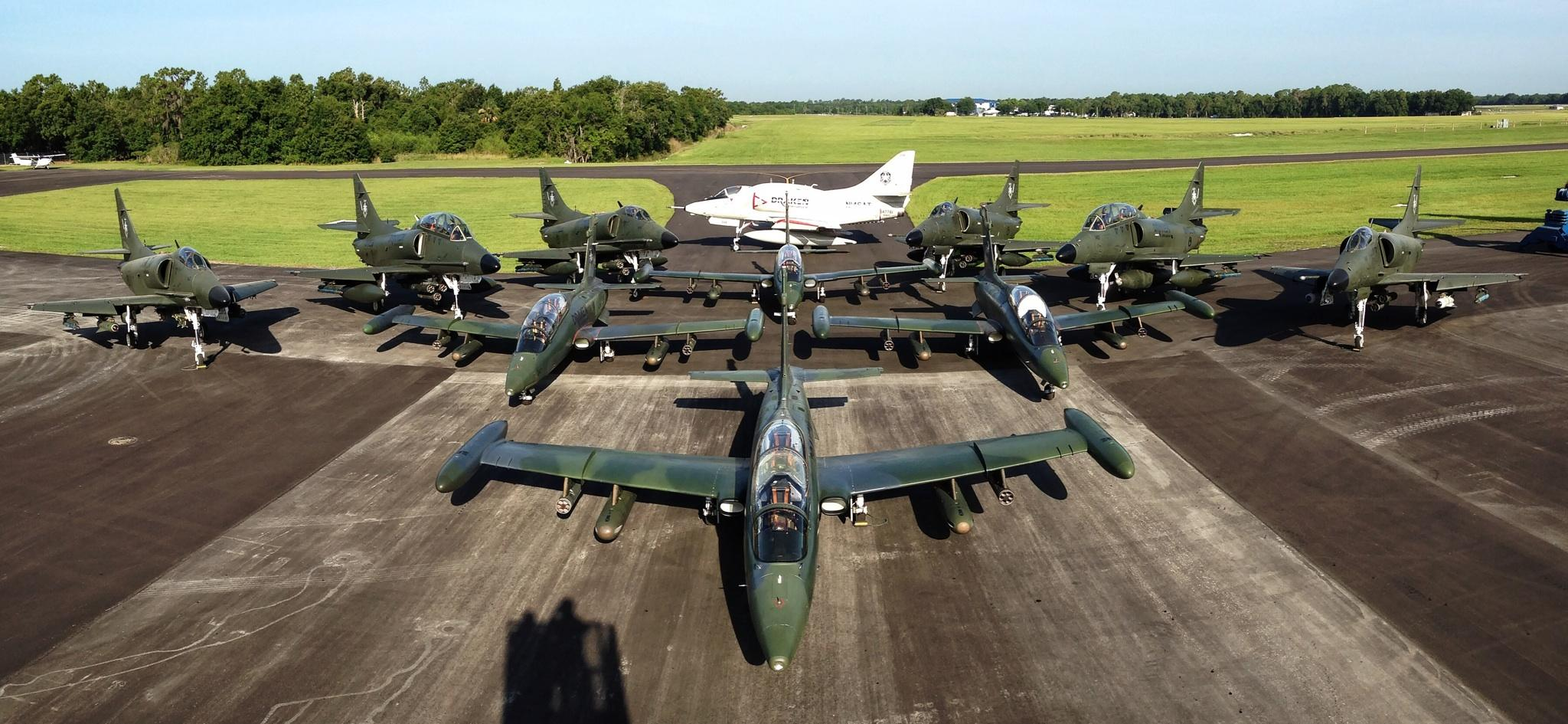 Draken